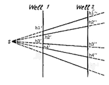 Haites perspective correlation